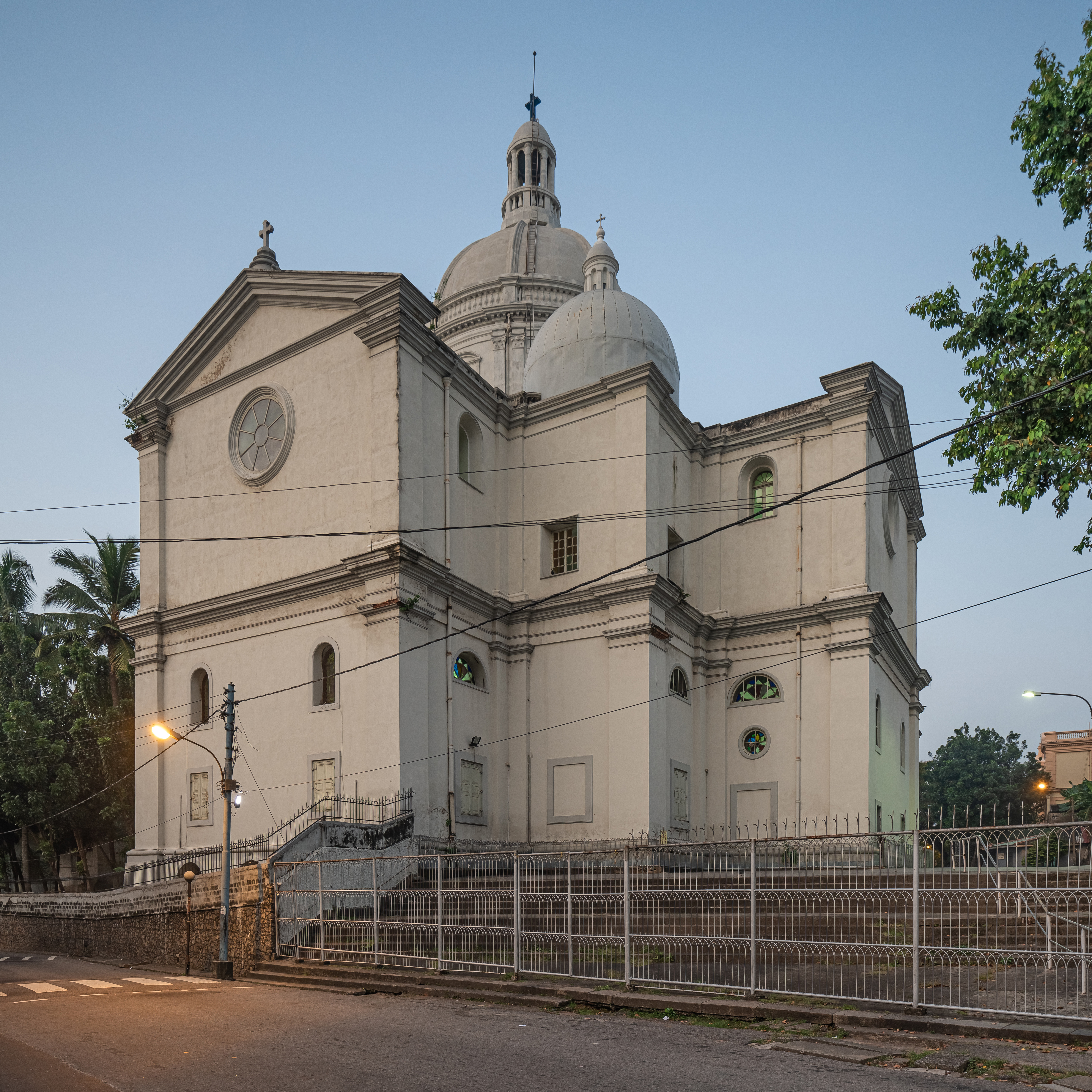 Roman Catholic St. Lucia Church in Colombo, Sri Lanka